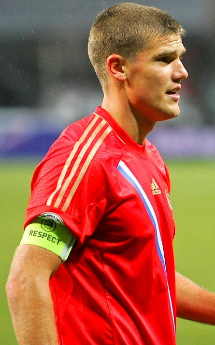 Igor Denisov